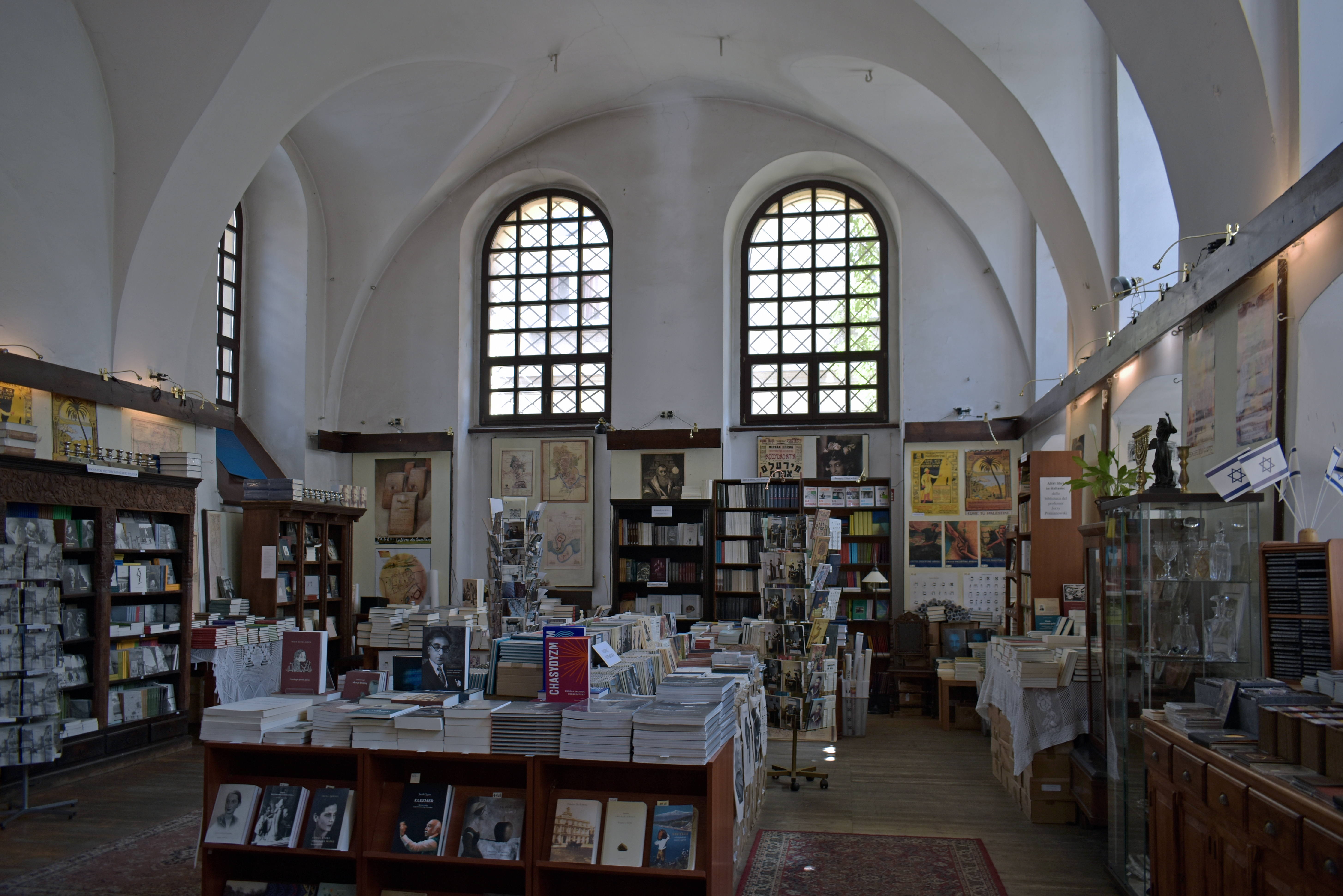 Wolf Popper Synagogue, interior, 16 Szeroka street, Kazimierz, Kraków, Poland